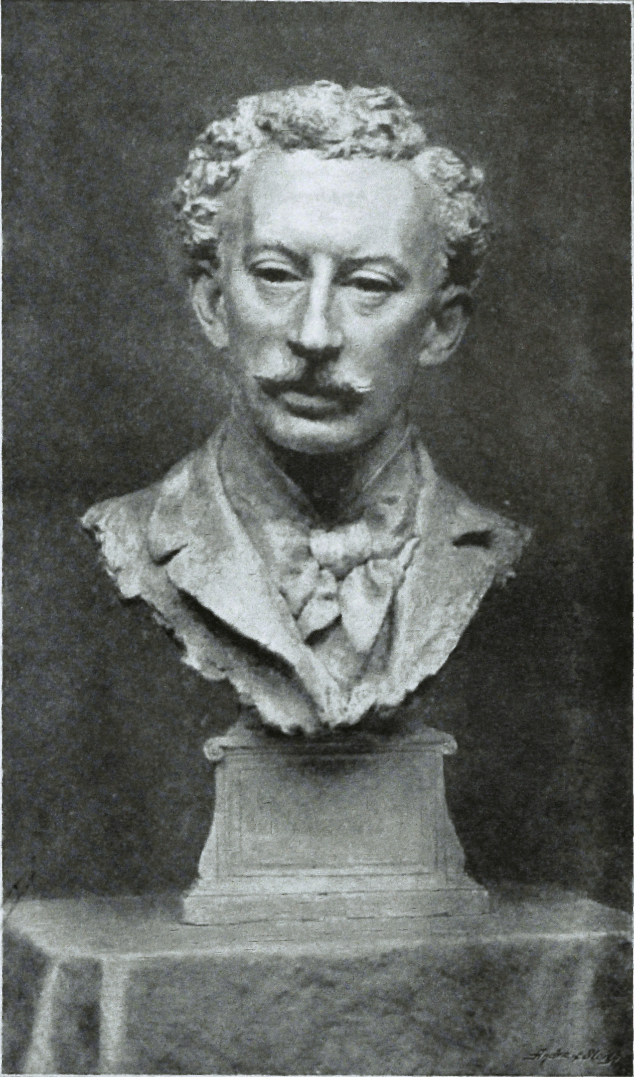 Arthur Hacker RA (London 25 September 1858 – 12 November 1919 London)